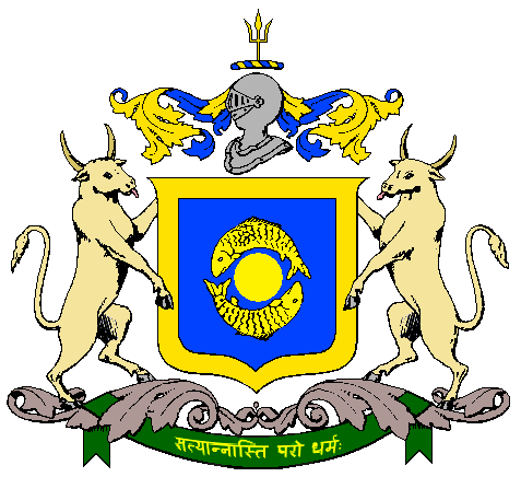 Benares State Coat of Arms This work is in the public domain in India because its term of copyright has expired. The Indian Copyright Act applies in India, to works first published in India. According to The Indian Copyright Act, 1957 (Chapter V Section 25), Anonymous works, photographs, cinematographic works, sound recordings, government works, and works of corporate authorship or of international organizations enter the public domain 60 years after the date on which they were first published, counted from the beginning of the following calendar year (ie. as of 2020, works published prior to 1 January 1960 are considered public domain). Posthumous works (other than those above) enter the public domain after 60 years from publication date. Any other kind of work enters the public domain 60 years after the author's death. Text of laws, judicial opinions, and other government reports are free from copyright. Photographs created before 1960 are in the public domain 50 years after creation, as per the Copyright Act 1911. This file may not be in the public domain outside India. The creator and year of publication are essential information and must be provided. See Wikipedia:Public domain and Wikipedia:Copyrights for more details. This image shows a flag, a coat of arms, a seal or some other official insignia. The use of such symbols is restricted in many countries. These restrictions are independent of the copyright status.